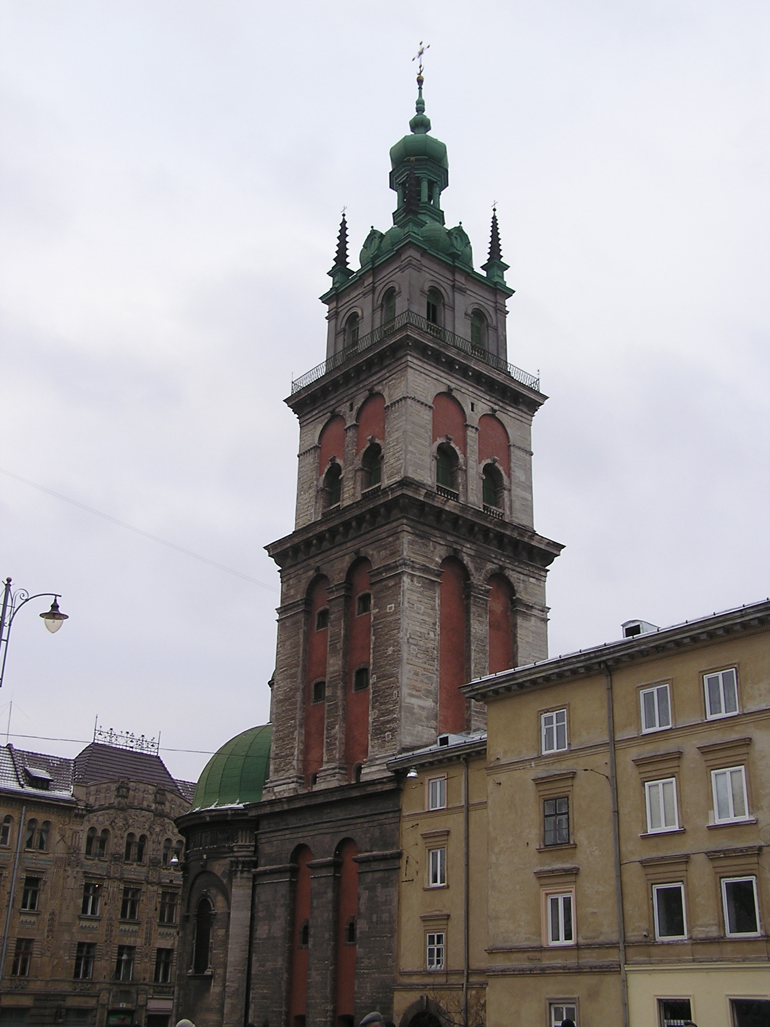 Lviv